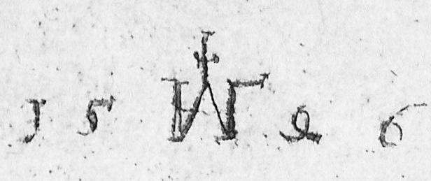 Monogram "AH", signature of the german engraver Augustin Hirschvogel (1503-1553), from an etching dated 1546.